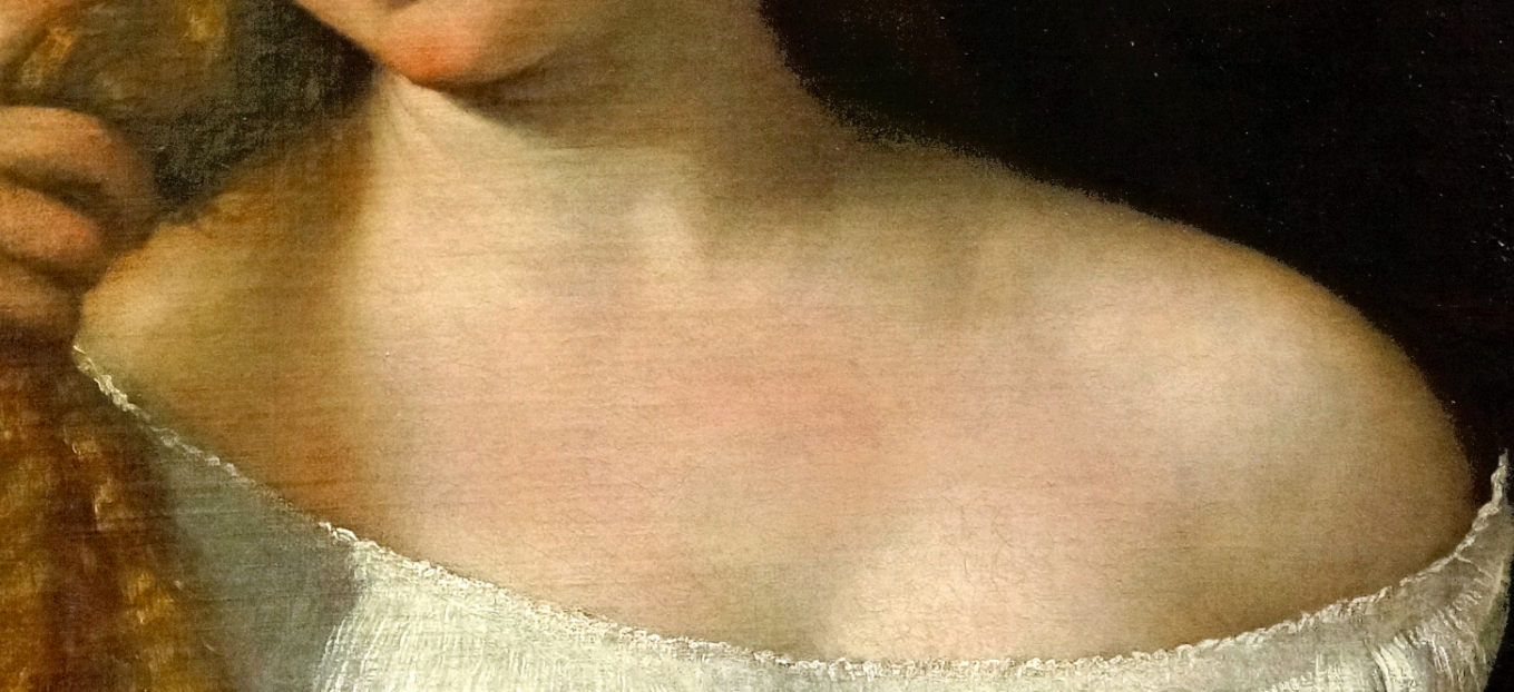 Variations of light on the skin of the woman